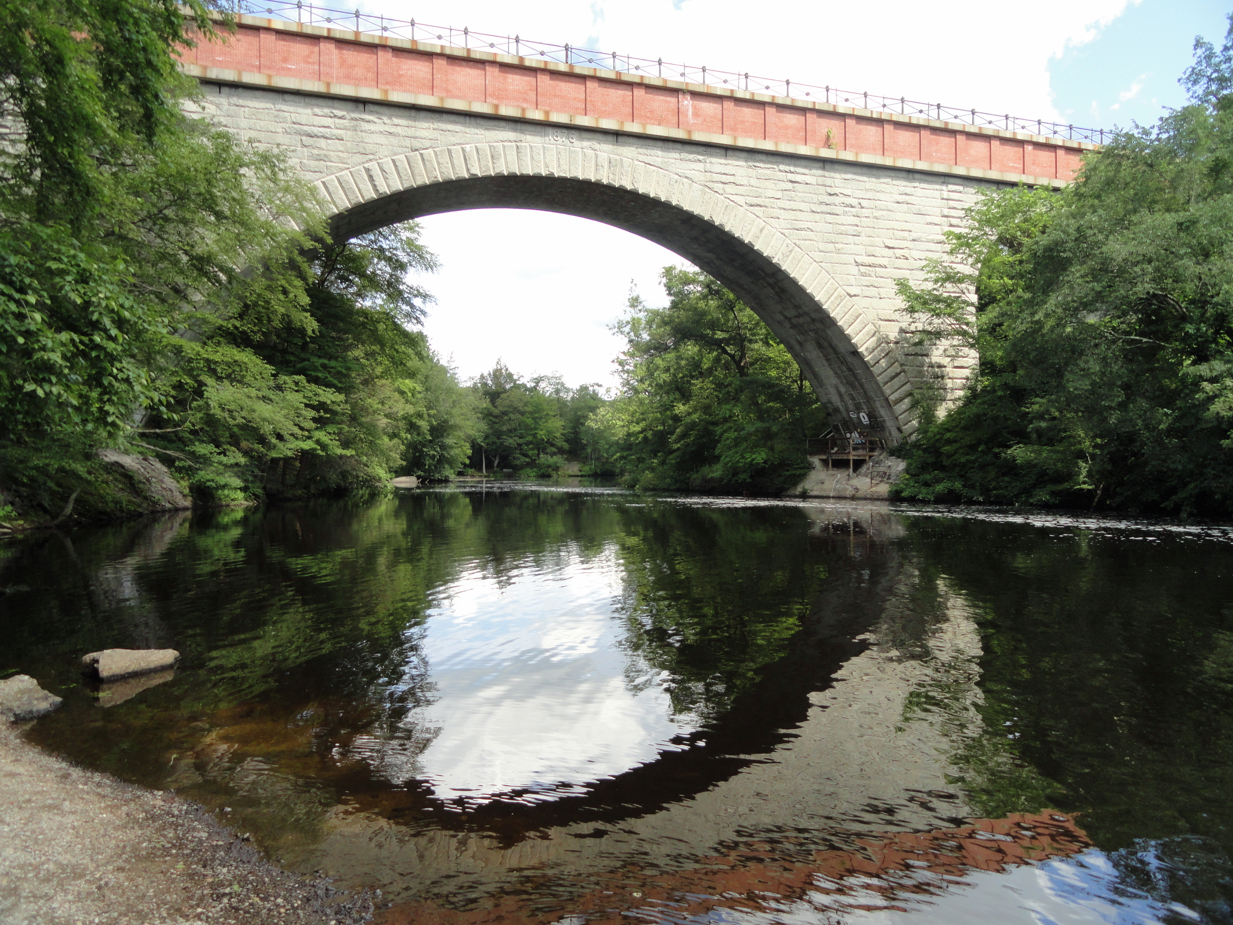 Echo Bridge, over the Charles River near Newton Upper Falls. Located in Hemlock Gorge, Charles River Reservation, Newton, Massachusetts, USA.